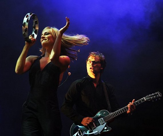 Hooverphonic, Markrock 2008